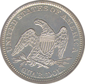 1861 Quarter Dollar, Seated Liberty, Reverse